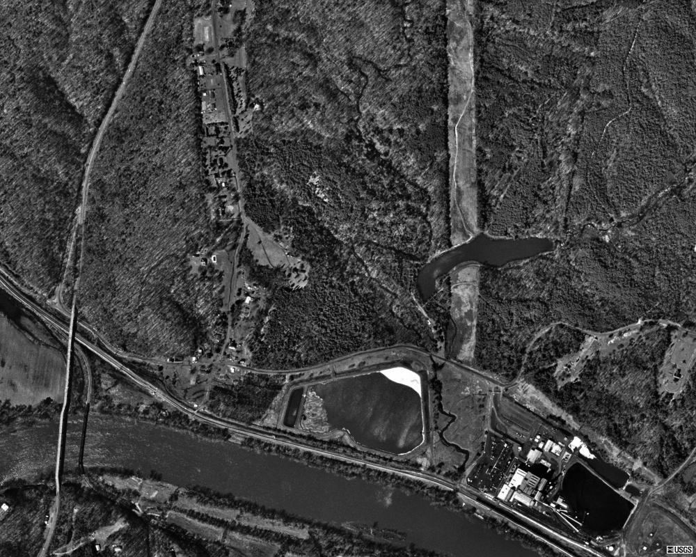 Aerial photo of the unincorporated town of Bremo Bluff, Virginia (U.S. Census class code U6) on the Northern side of the James River in 1994. The North/South road at the left side of the image is U.S. Route 15. The route running along the Northern bank of the river is the James River line, presently owned by CSX Transportation. The complex near the bottom right corner of the image is the Bremo Power Station, owned by Dominion Resources.